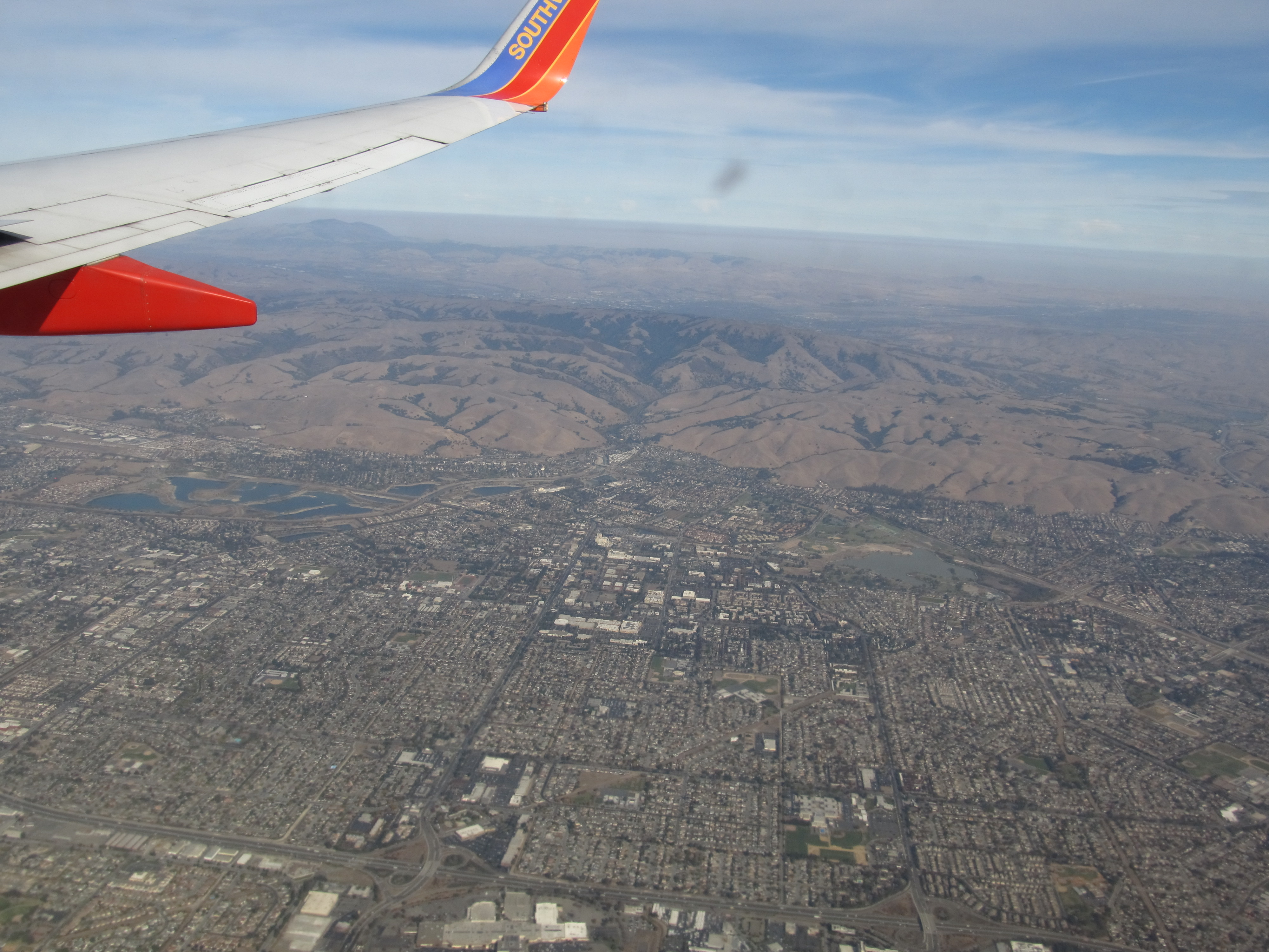 Fremont is a city in Alameda County, California. It was incorporated on January 23, 1956, from the merger of five smaller communities: Centerville, Niles, Irvington, Mission San Jose, and Warm Springs. The city is named after American explorer John Charles Frémont, "the Great Pathfinder." Located in the southeast section of the San Francisco Bay Area in the East Bay region primarily, Fremont had a population at the 2010 census of 214,089. It is the fourth most populous city in the San Francisco Bay Area, and the largest suburb in the metropolis. It is the closest East Bay city to Silicon Valley, and is thus sometimes associated with it. The area consisting of Fremont, Newark (an enclave of Fremont), and Union City (formed from the communities of Alvarado and DeCoto), is now known as the Tri-City Area. Nestled at the base of Fremont's rolling hills is the Mission San José, one of the oldest of the historic Spanish missions in California, for which this district is named. The church building that exists today is a re-construction (dedicated in 1985 for daily Mass and tours) of the original 1809 adobe church that was destroyed by the 1868 Hayward-fault earthquake.